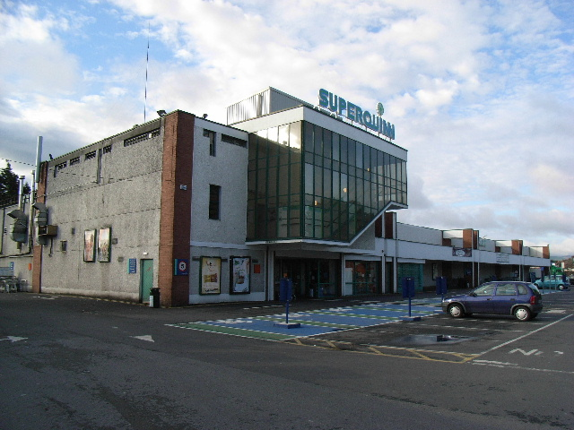 Superquinn Supermarket, Walkinstown Road.